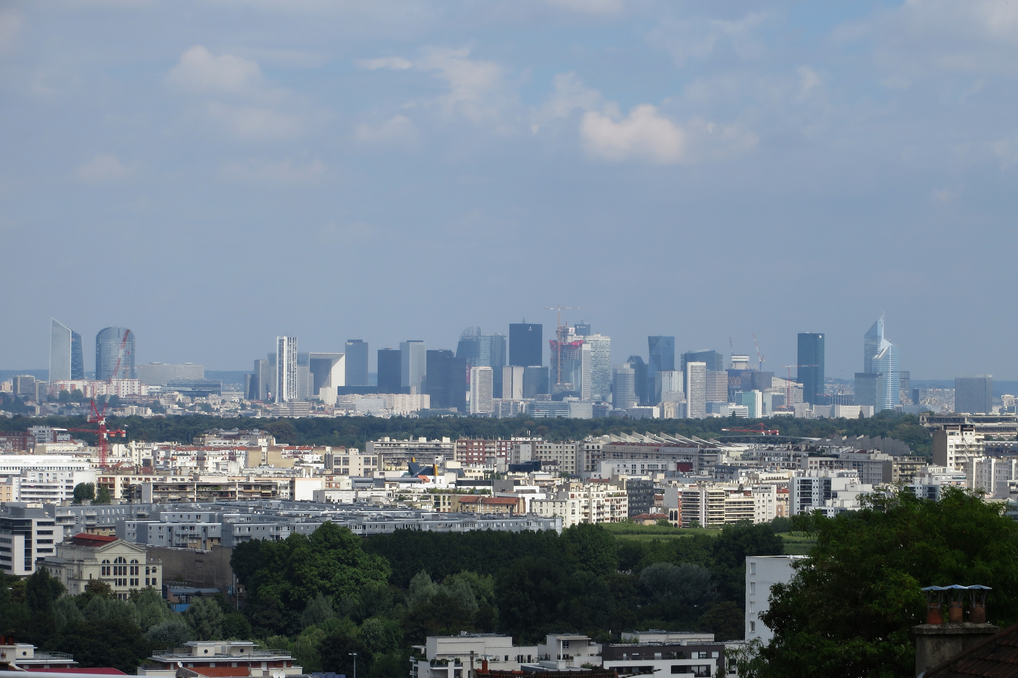 La Défense